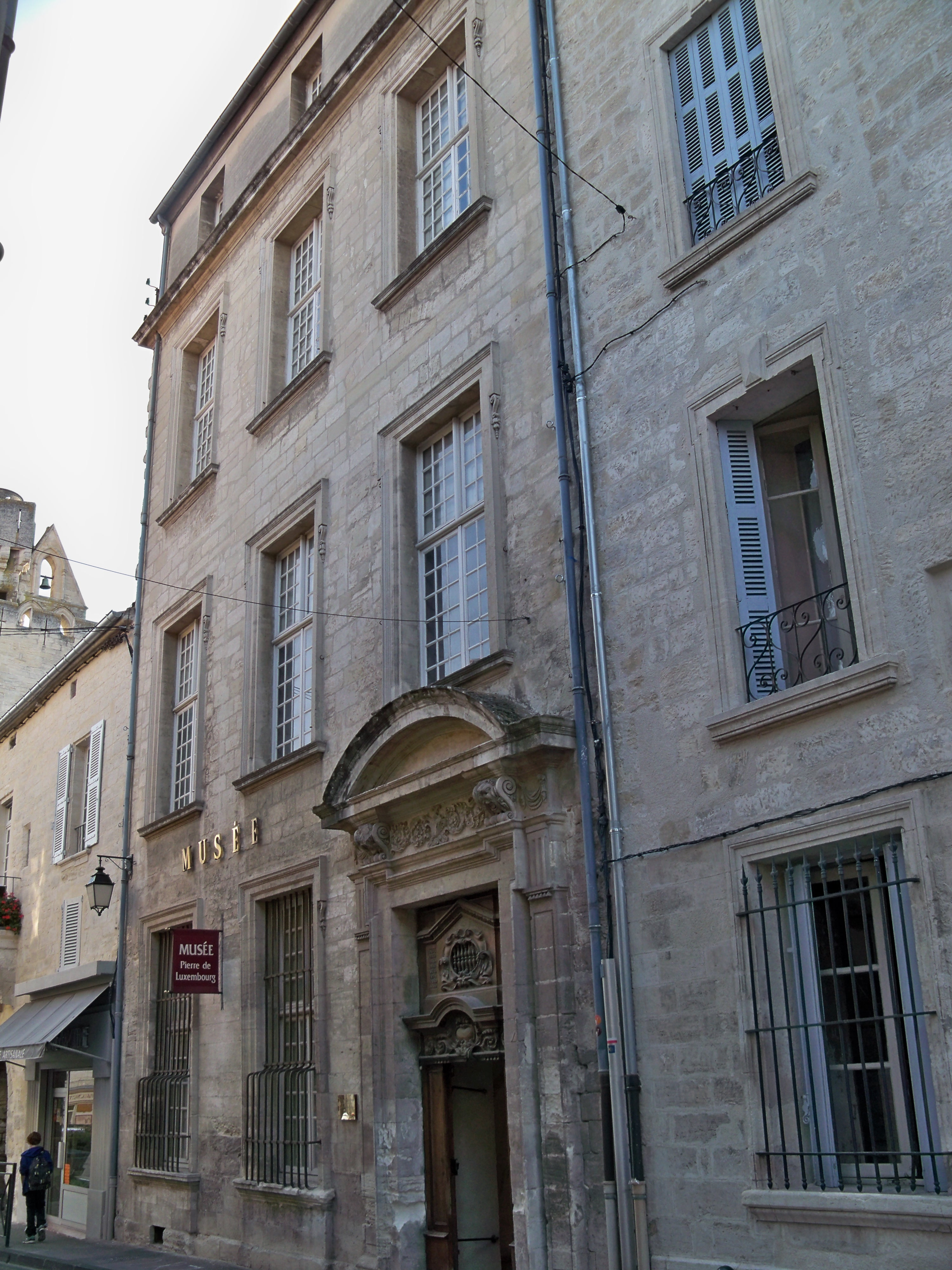 Villeneuve-lès-Avignon (Gard, France), Pierre de Luxembourg mansion.